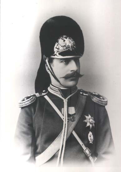 Georg Alexander of Mecklenburg-Strelitz 1859 -1909